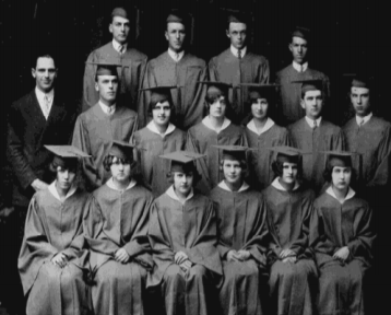 The picture is the Logan-Rogersville High School Class of 1927.